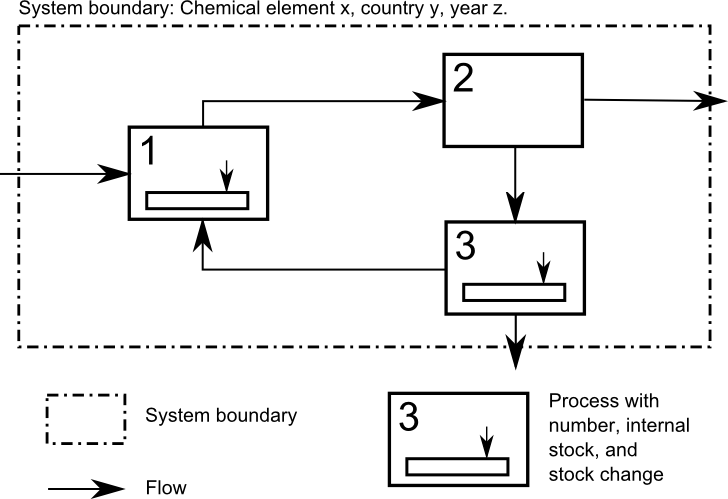 An elementary MFA system without quantification.